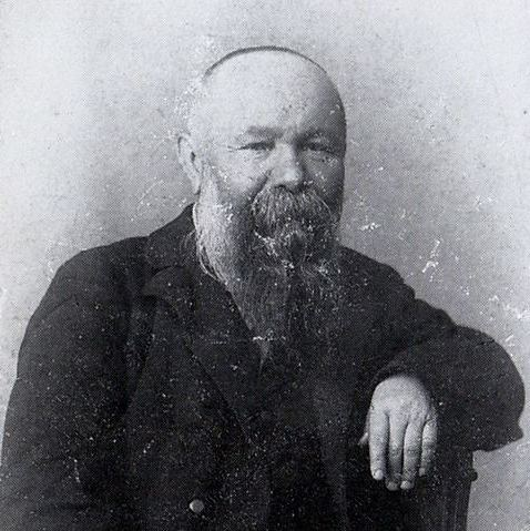 Portrait of a Serbian writer and translator Milovan Glišić. Srpski (latinica): Portrec pisca i prevodioca Milovana Glišića.